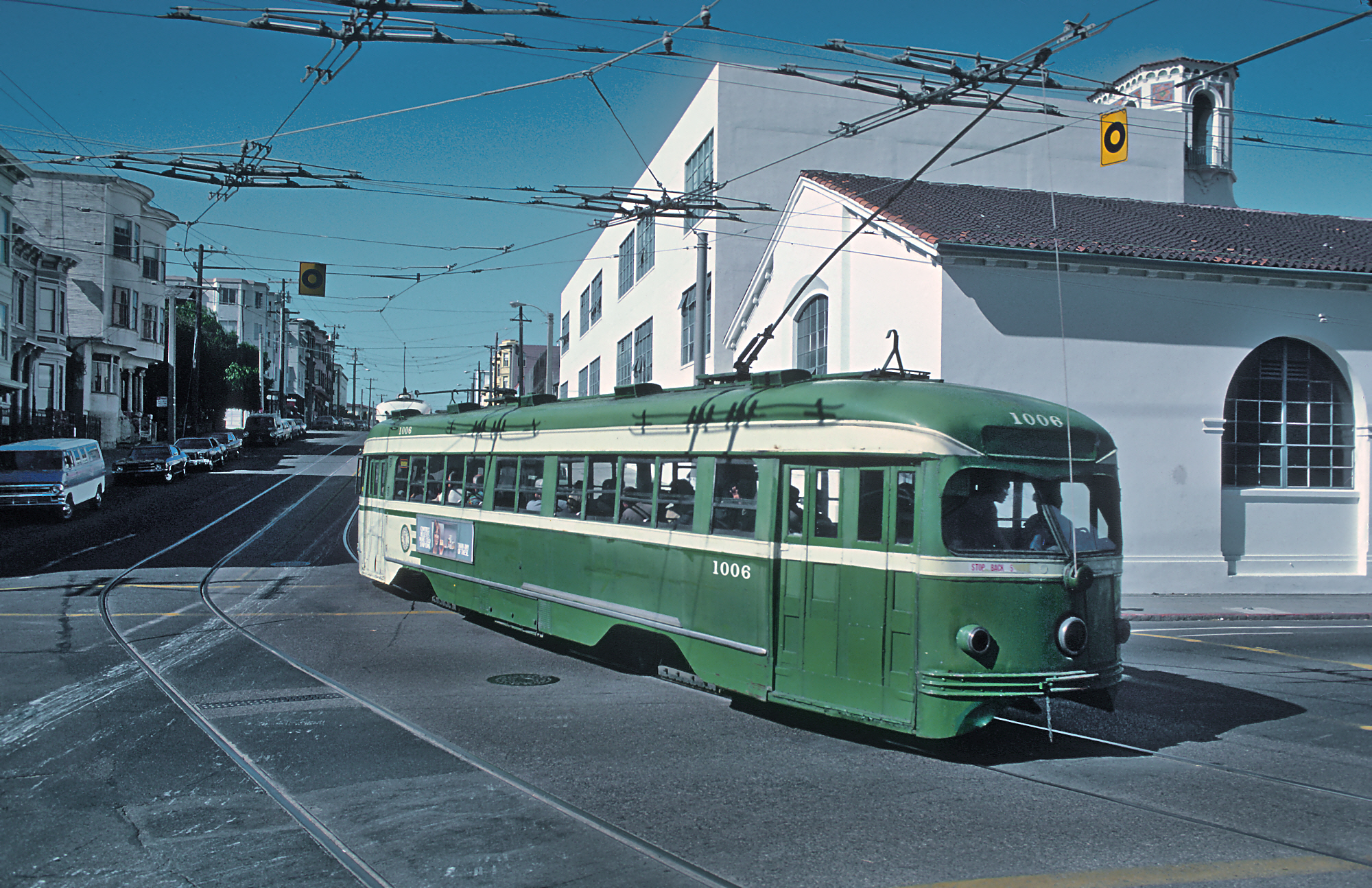 Double ended MUNI 1006 rolled CHARTER NO PASSENGERS leaving Delores Park at 18th and Church Streets in August 1981 This file comes from the Roger Puta collection, which passed to Mel Finzer. They were scanned and posted by Marty Bernard, are in the Public Domain. Attribution to "Roger Puta" is not required for a PD image, but should be done as a matter of courtesy to a major Commons contributor. Mel Finzer, the heirs of this work's copyright holder (usually the creator) have released it into the public domain. This applies worldwide. In some countries this may not be legally possible; if so: The heirs of the creator grant anyone the right to use this work for any purpose, without any conditions, unless such conditions are required by law. See This work is free and may be used by anyone for any purpose. If you wish to use this content, you do not need to request permission as long as you follow any licensing requirements mentioned on this page.